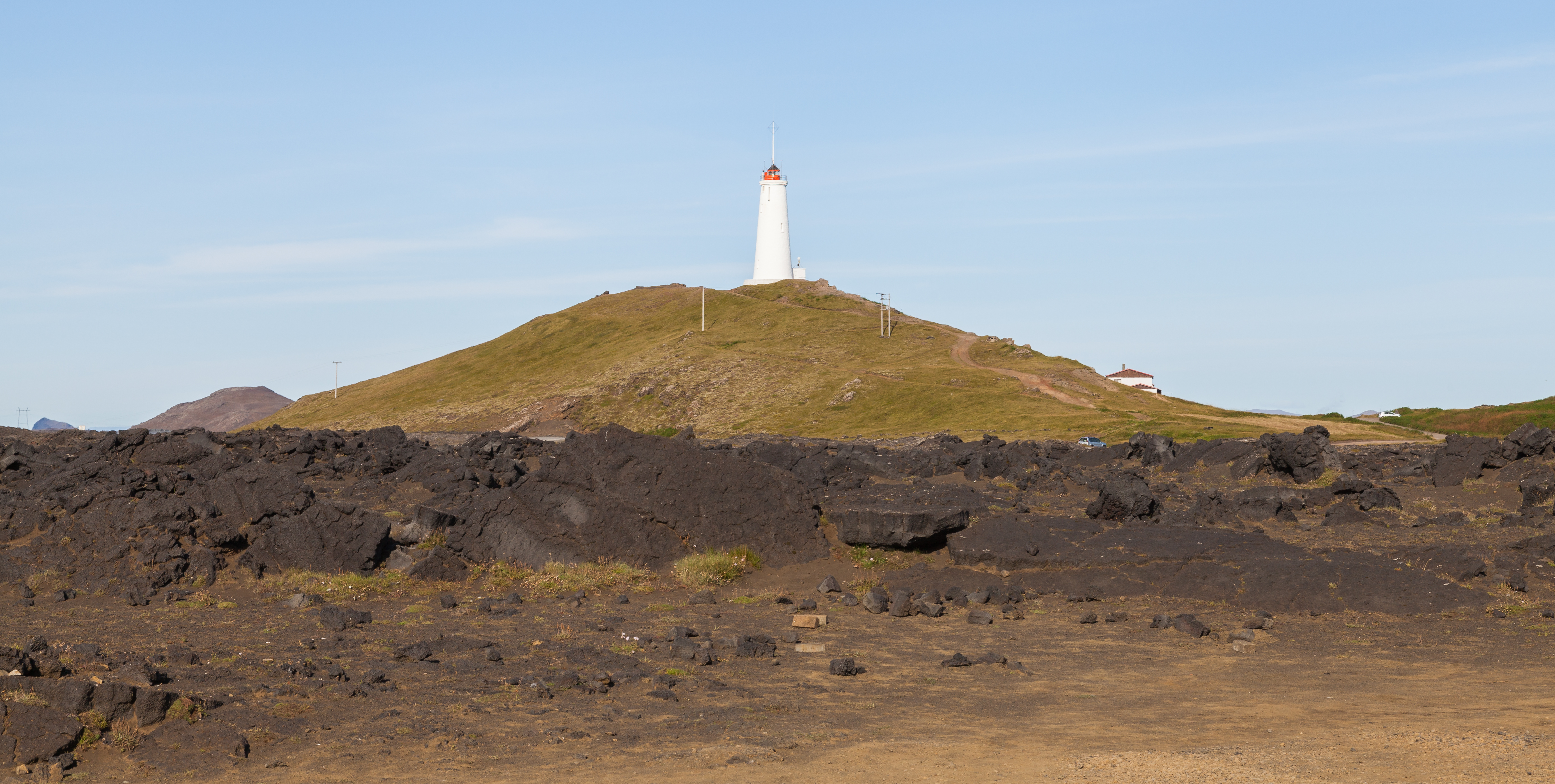 Valahnúkur lighthouse, Suðurnes, Iceland